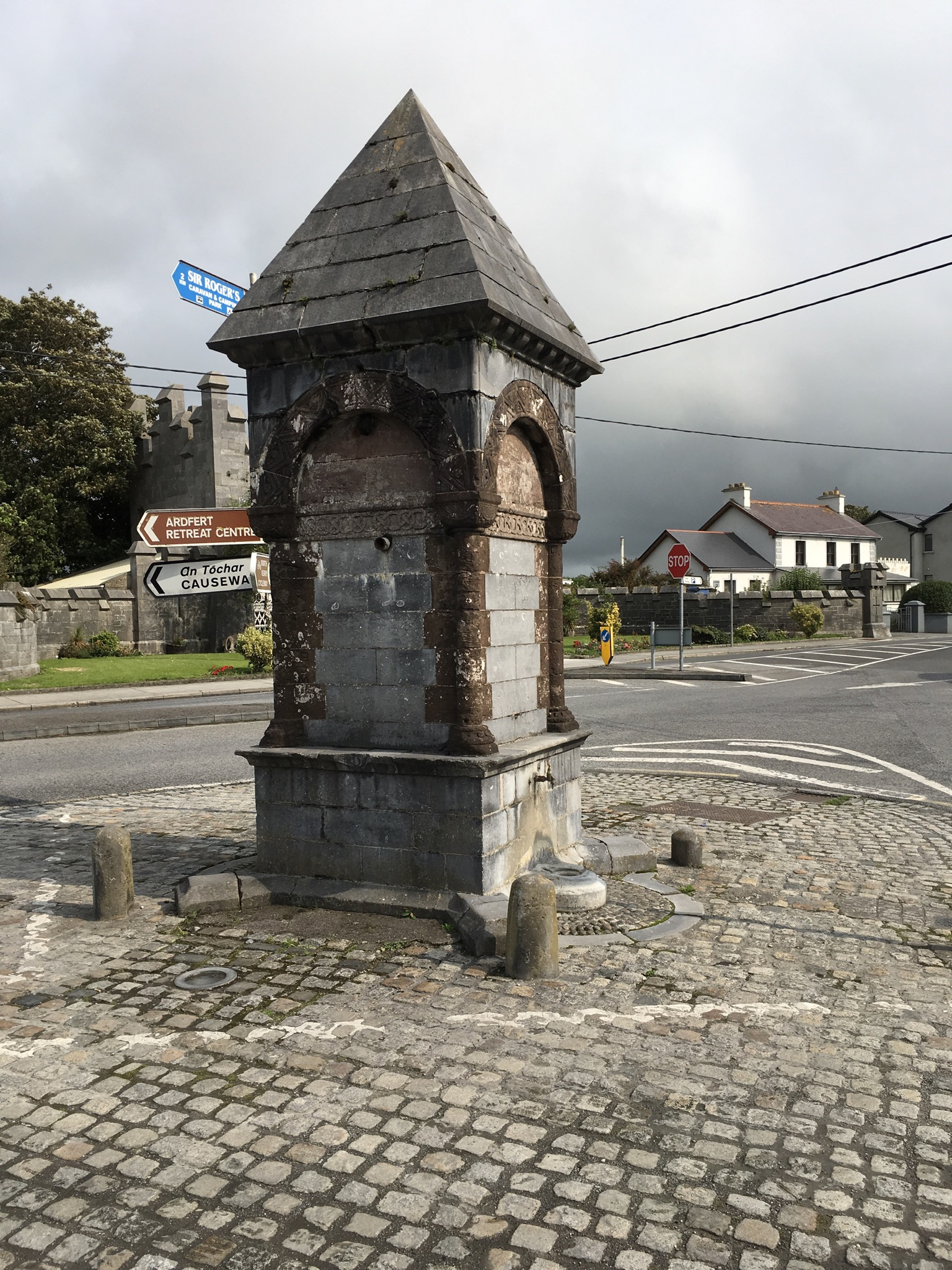 Ardfert, Talbot-Crosbie Memorial. Wikidata has entry Q55028419 with data related to this item.